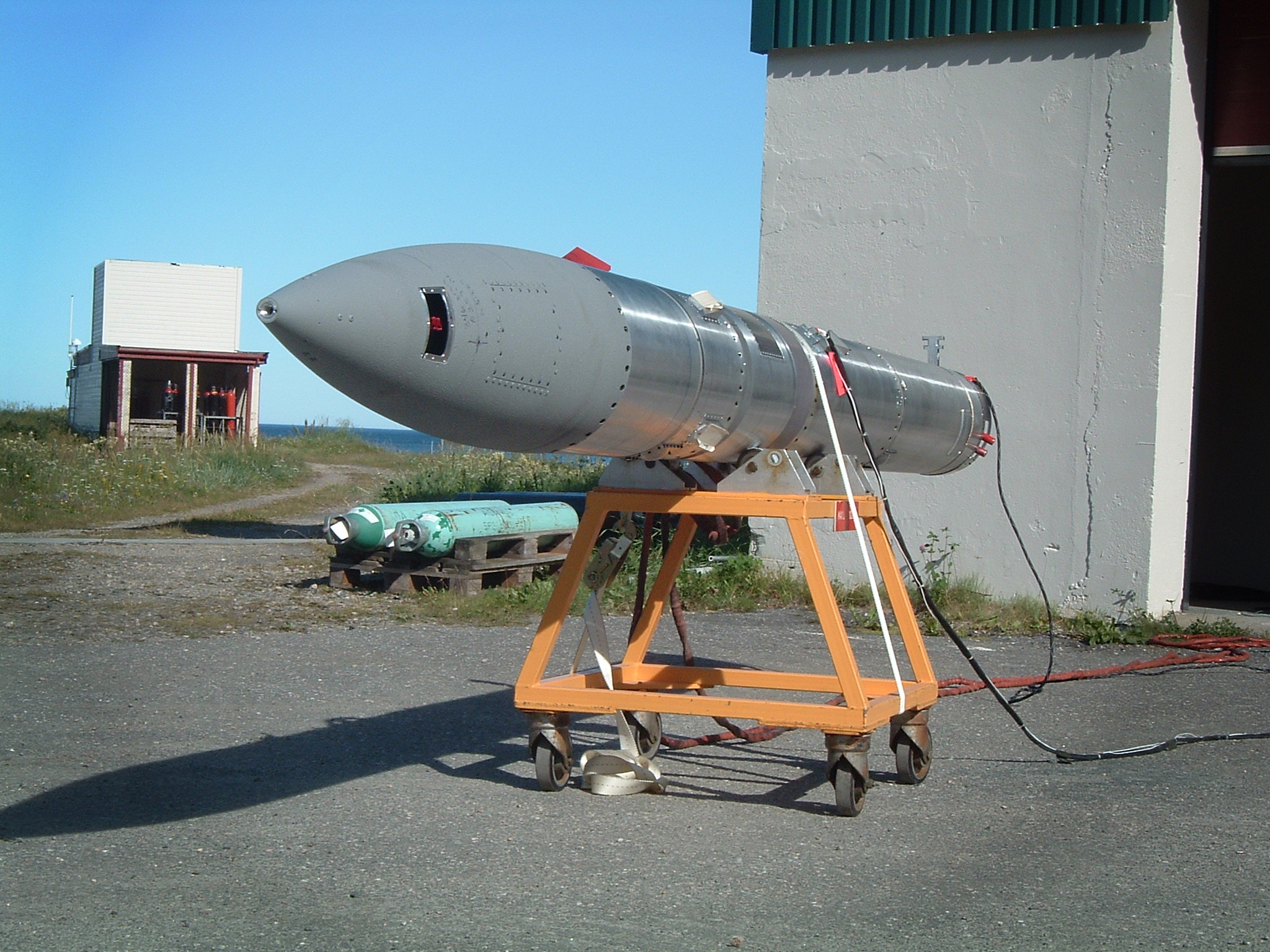 Sounding rocket for upper atmosphere measurements. Prepared for launch at Andøya Rocket Range (now Andøya Space Center) in Norway, 30.07.2007.